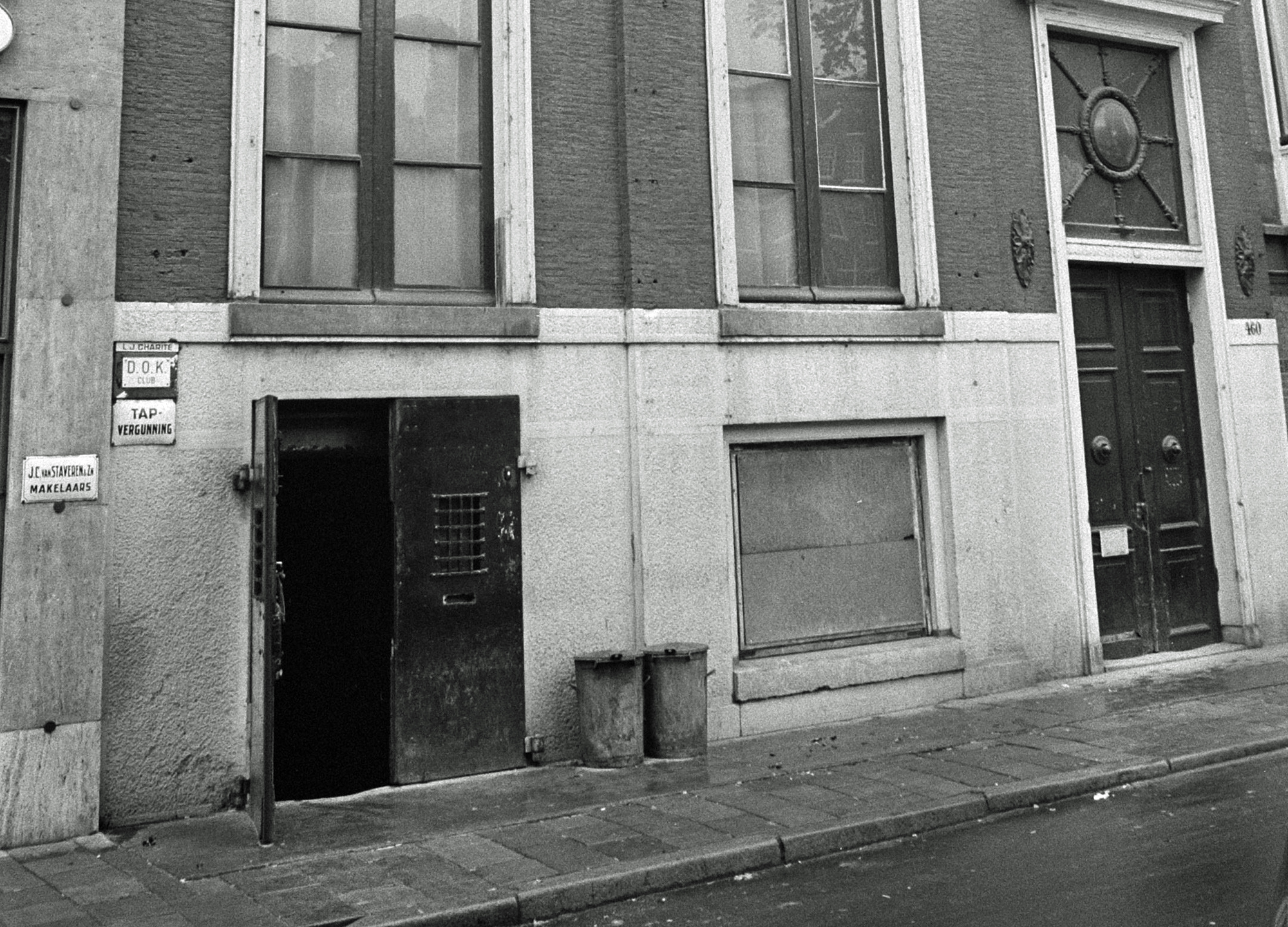 Entrance door (left) to the former DOK, the first and biggest gay disco of post-war Europe, which was situated in the basement of the Odeon building at Singel 460 in Amsterdam from 1952 to 1989.